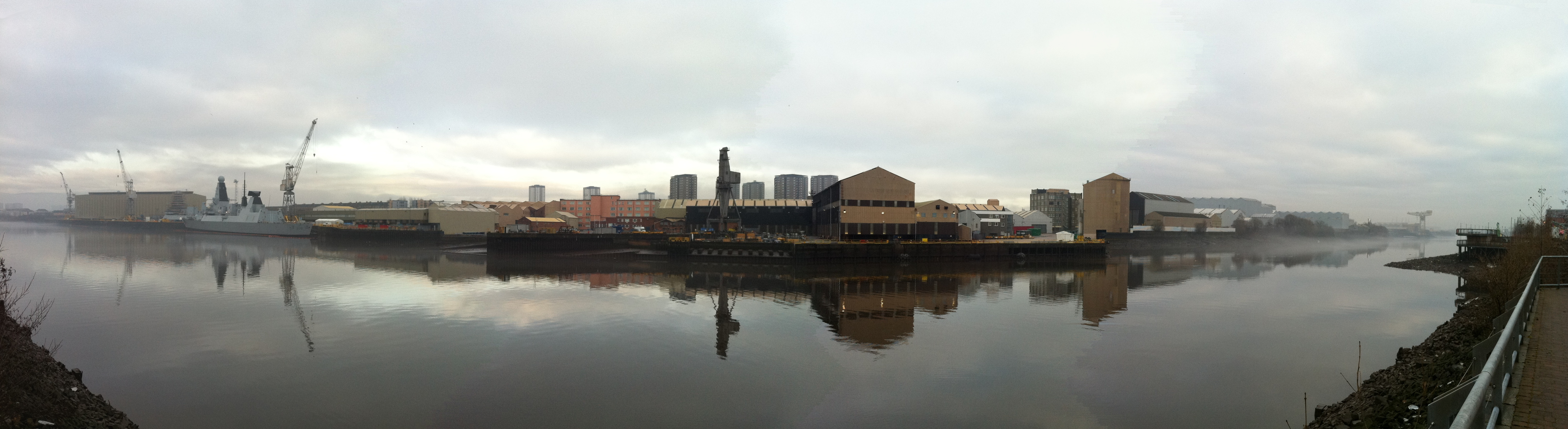 BAE Systems Surface Ships, Scotstoun with HMS Dragon (D35) to the left during sea trials.